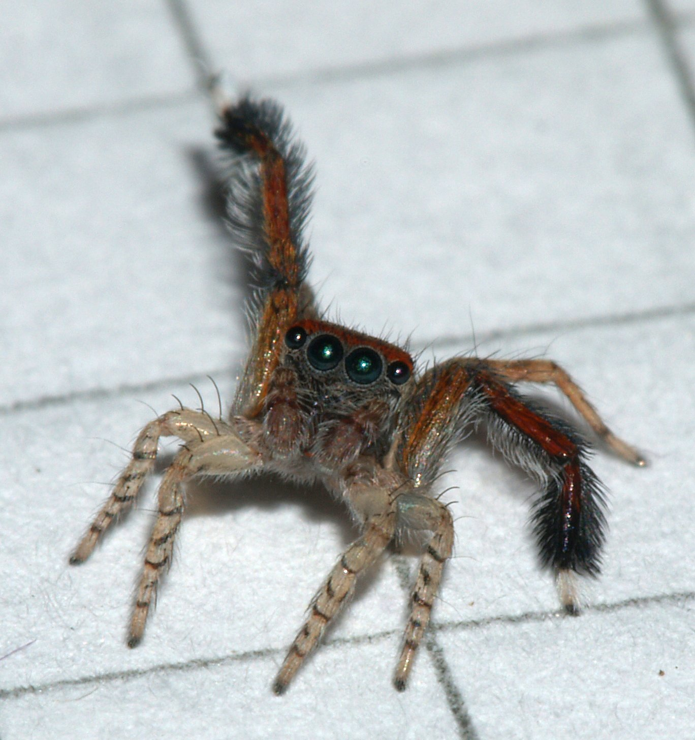 male Saitis barbipes from Menton, French Riviera (43°46′32″N 07°30′02″E / 43.77556°N 7.50056°E). One square on paper has a side length of 5 mm.